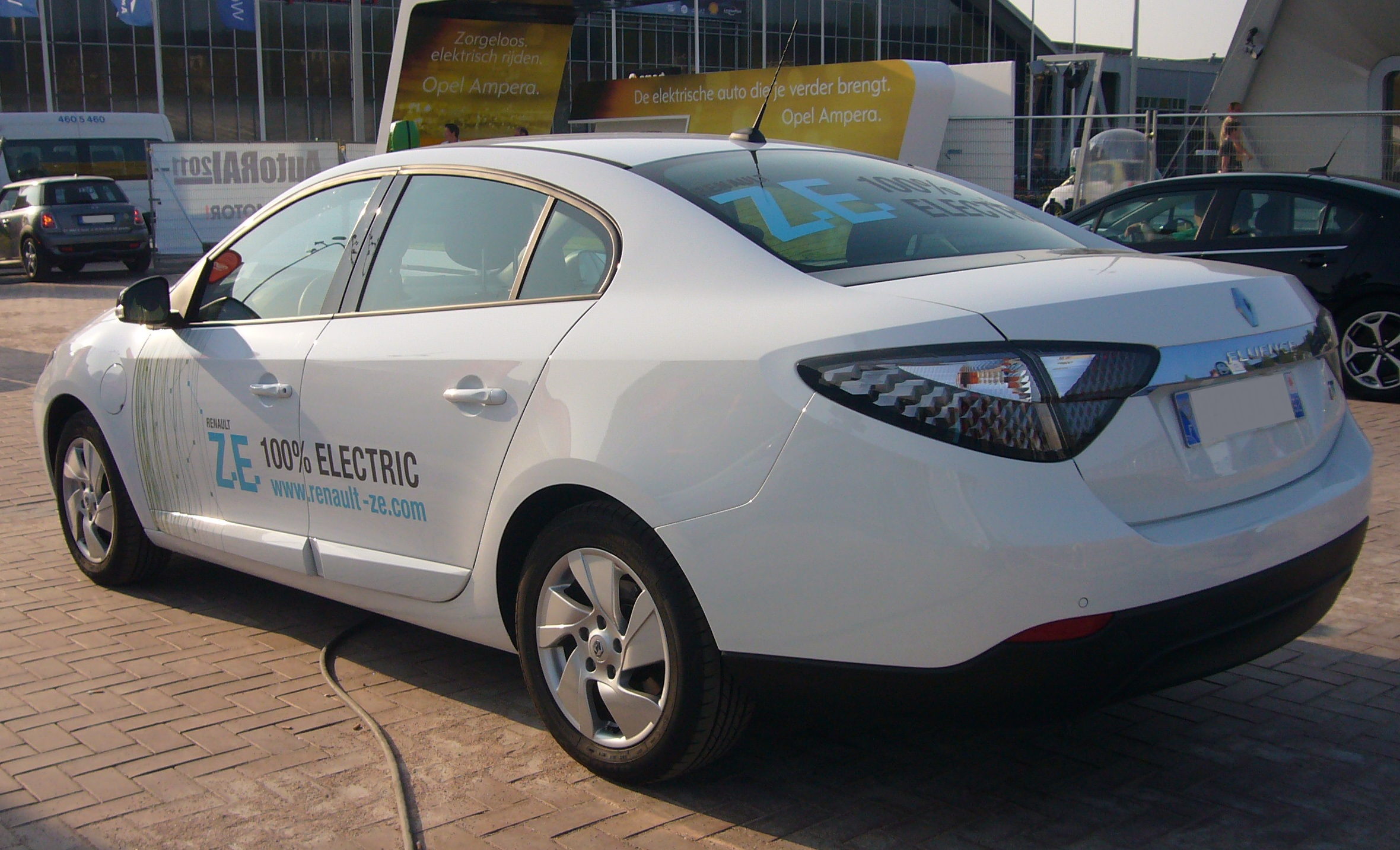 Renault Fluence Z.E. at AutoRAI Amsterdam 2011